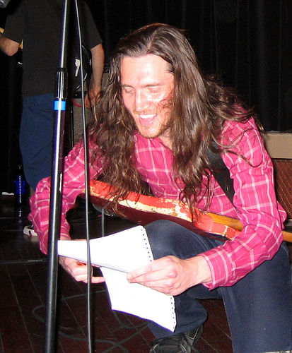 John Frusciante with Ataxia live at the Knitting Factory on February 2, 2004. Joe Lally in the background.